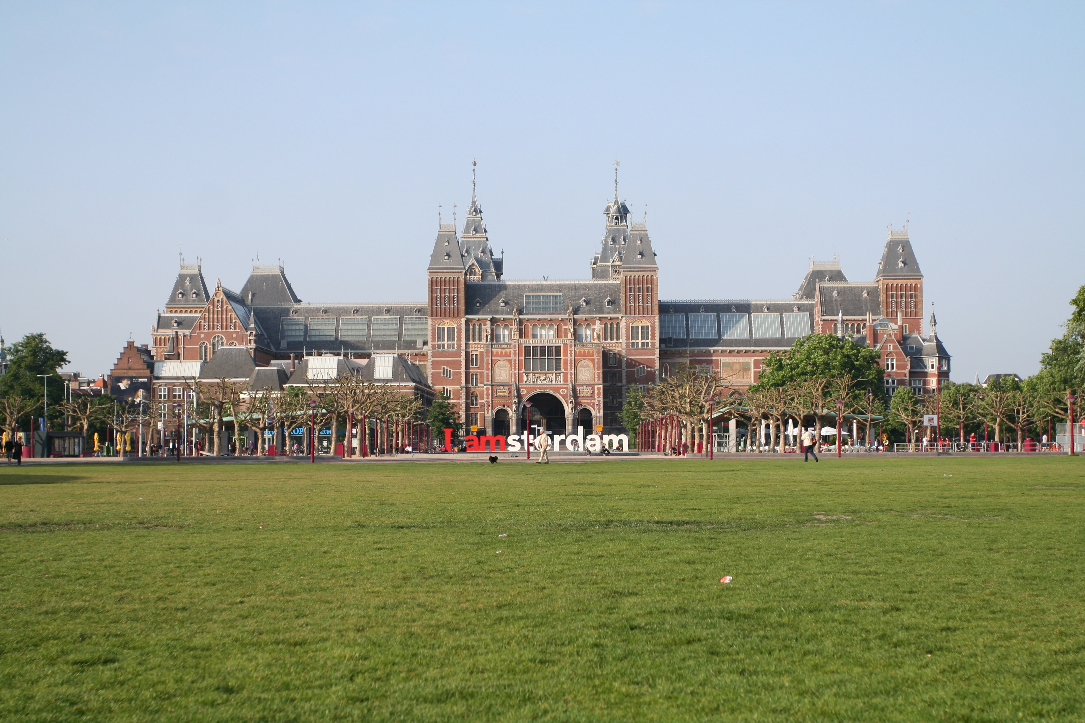 A photograph taken of the Rijksmuseum in Amsterdam, the Netherlands.